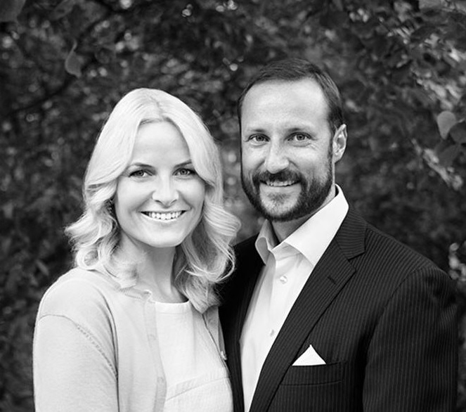 Haakon, Crown Prince of Norway and Mette-Marit, Crown Princess of Norway.